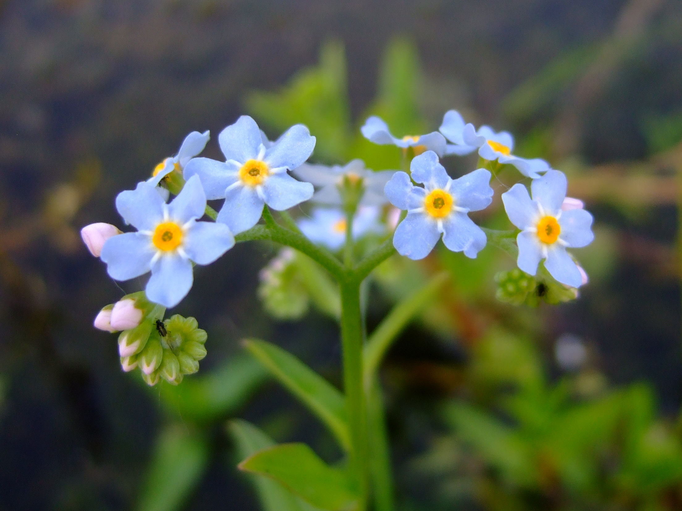 Water Forget-me-not in Kirchwerder, Hamburg.